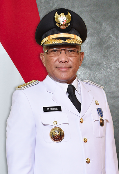 Official Portrait of Mohammad Idris, mayor of Depok